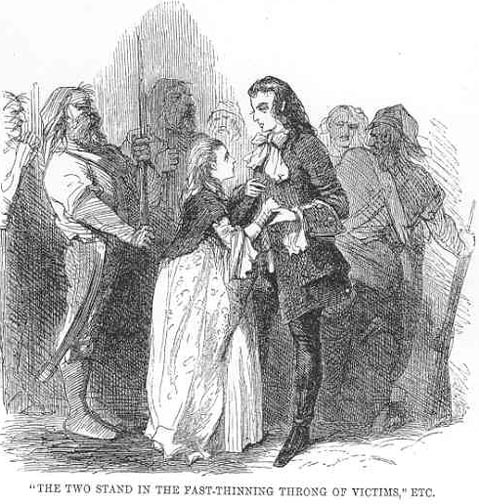 A Tale of Two Cities, illustration by John McLenan, Carton comforting the young seamstress. "The two stand in the fast-thinning throng of victims" John McLenan Dickens's A Tale of Two Cities, Book III, 15, "The Footsteps Die Out Forever" The thirtieth installment of the novel appeared in Harper's Weekly (26 November 1859): 765; it had originally appeared in the UK on Saturday, 19 November in All the Year Round